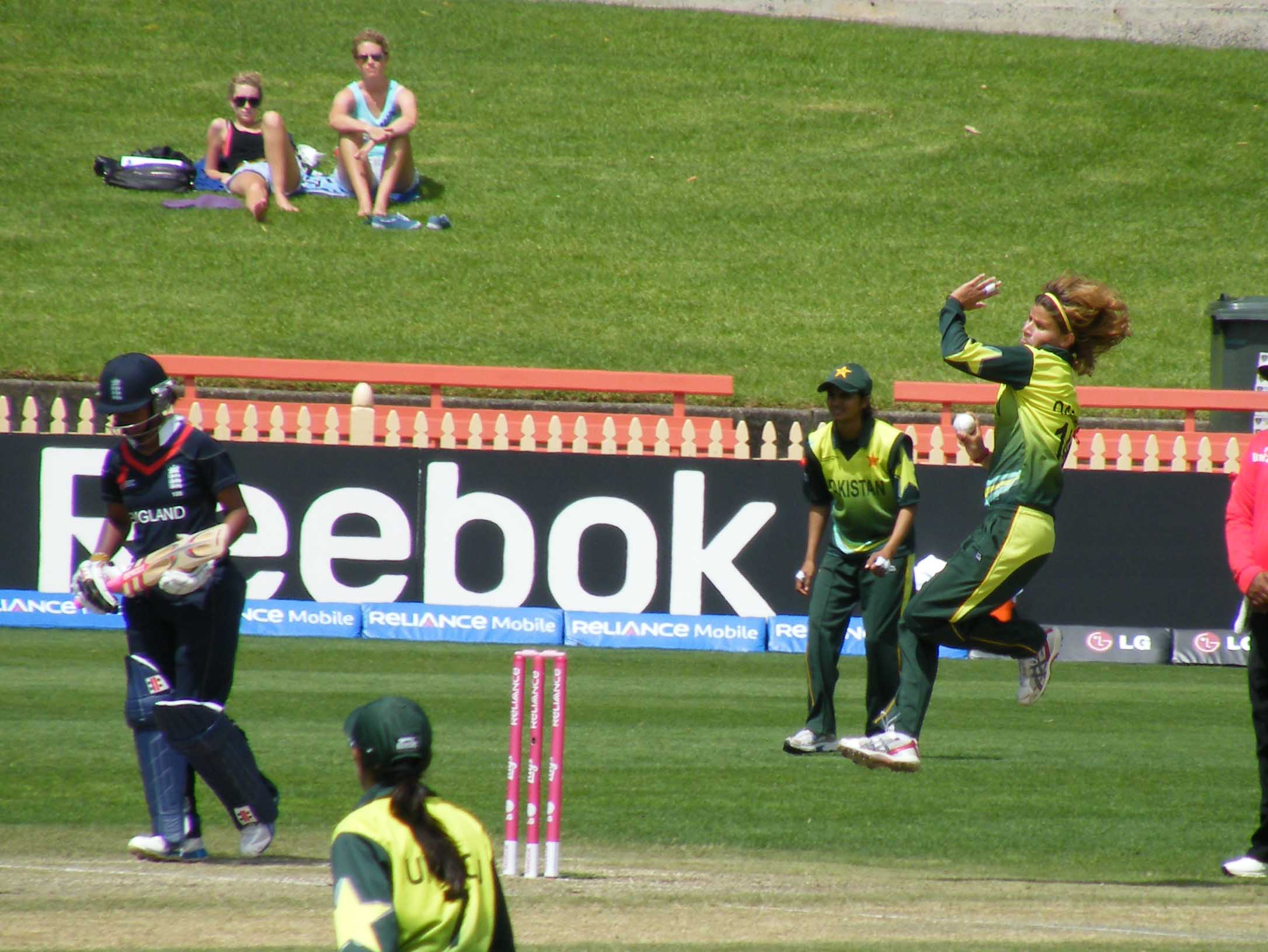 Qanita Jalil bowls for Pakistan - - ICC Women's Cricket World Cup - Sydney, March 2009.